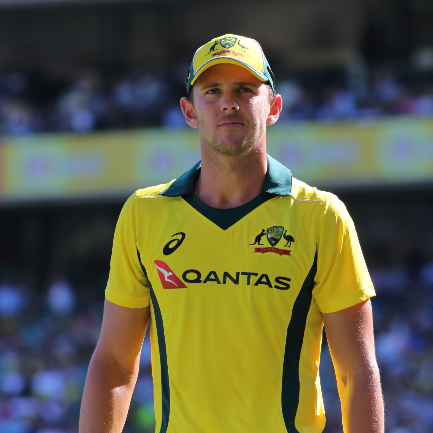 Josh Hazlewood during the AUSvENG 3rd ODI